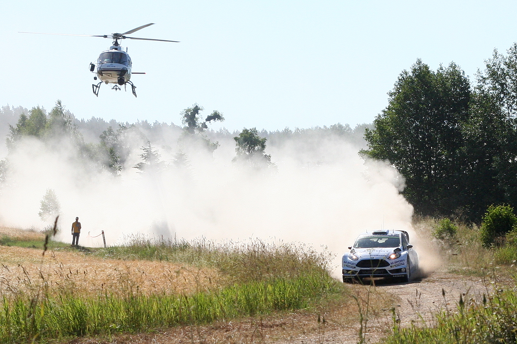 Elfyn Evans, OS 10 Mazury, 72nd LOTOS Rally Poland